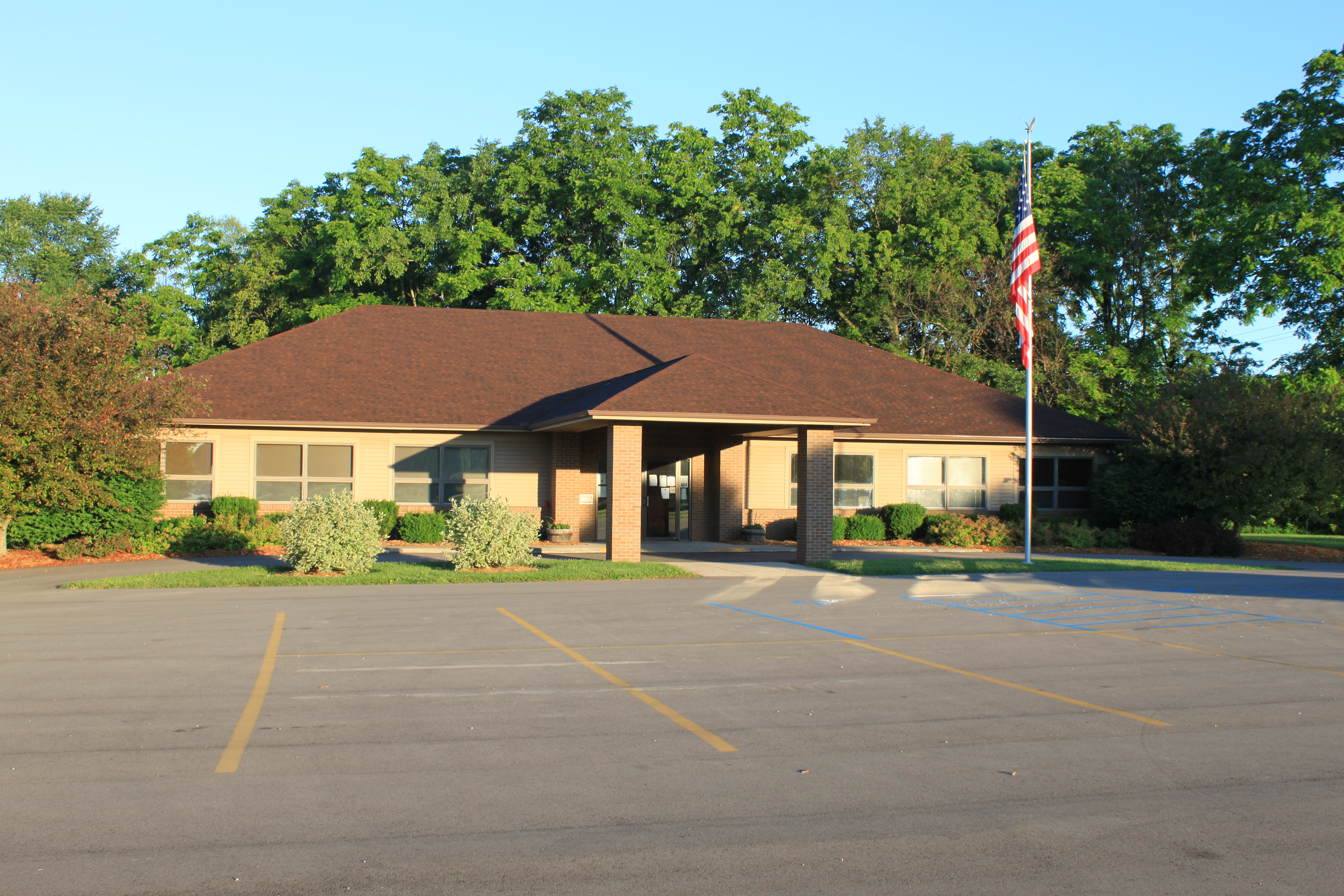 Lodi Township Hall, 3755 Pleasant Lake Road, Michigan